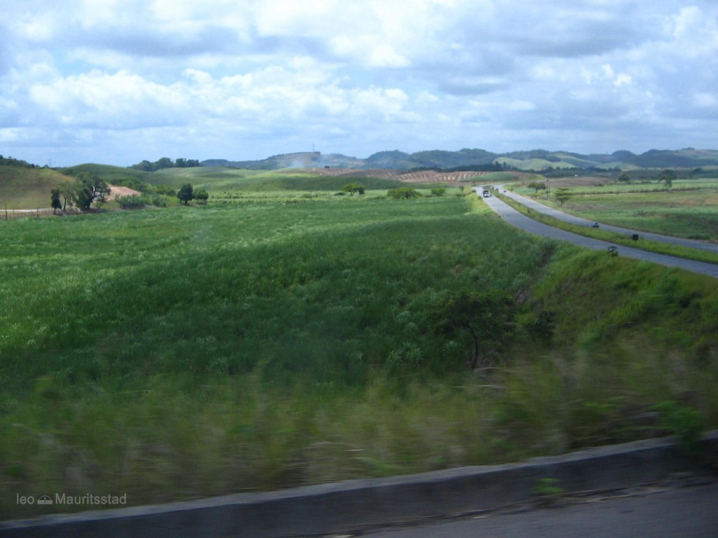 Monoculture of sugarcane, the most common agricultural activity in brazilian's northeast coastlines